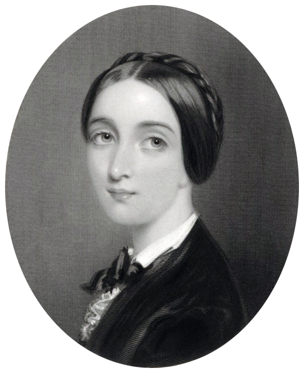 Portrait of actress Eugénie Doche